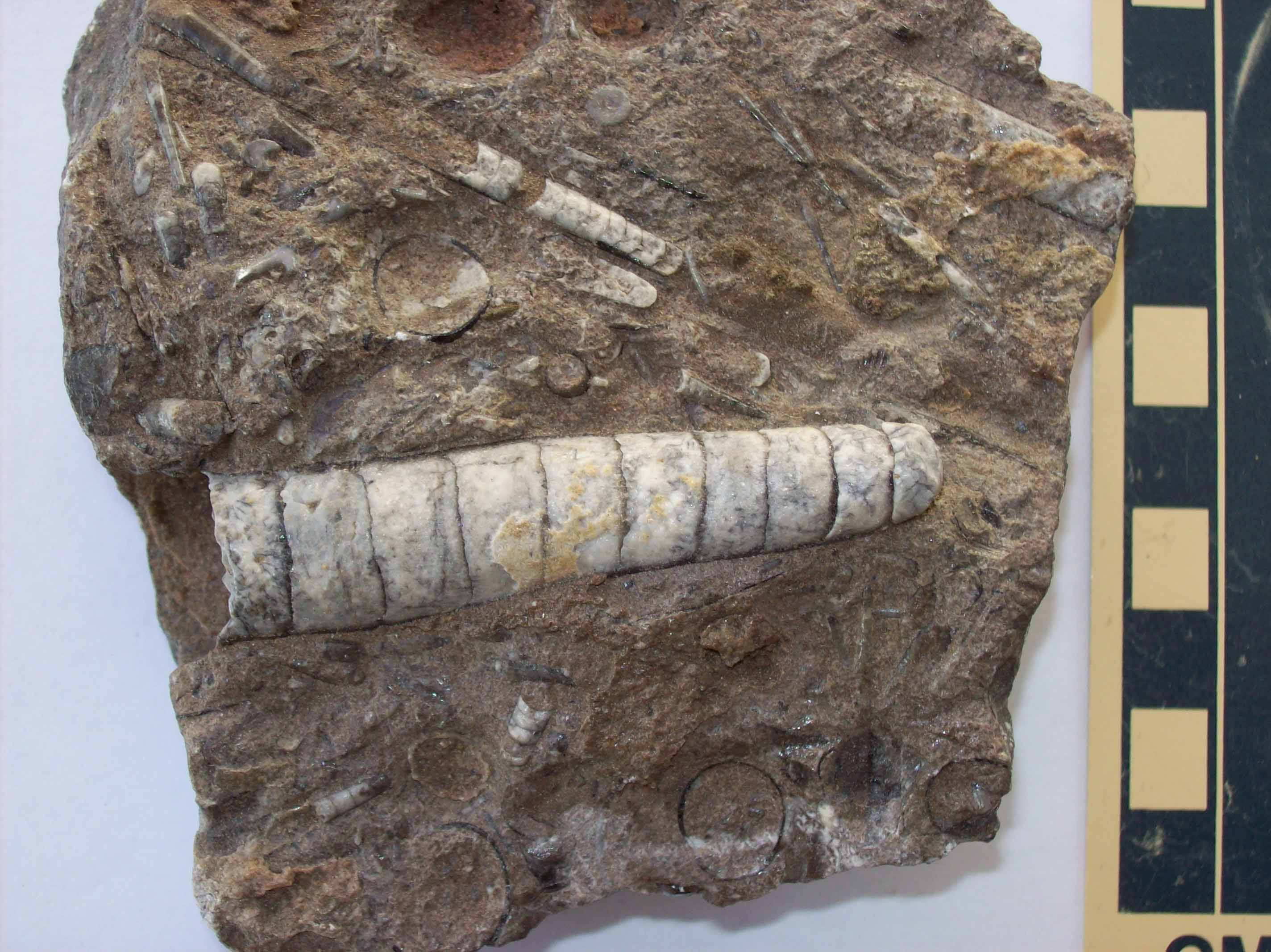 fragment of cephalopod limestone from latest Silurian-Early Devonian of Erfoud (Maroc).